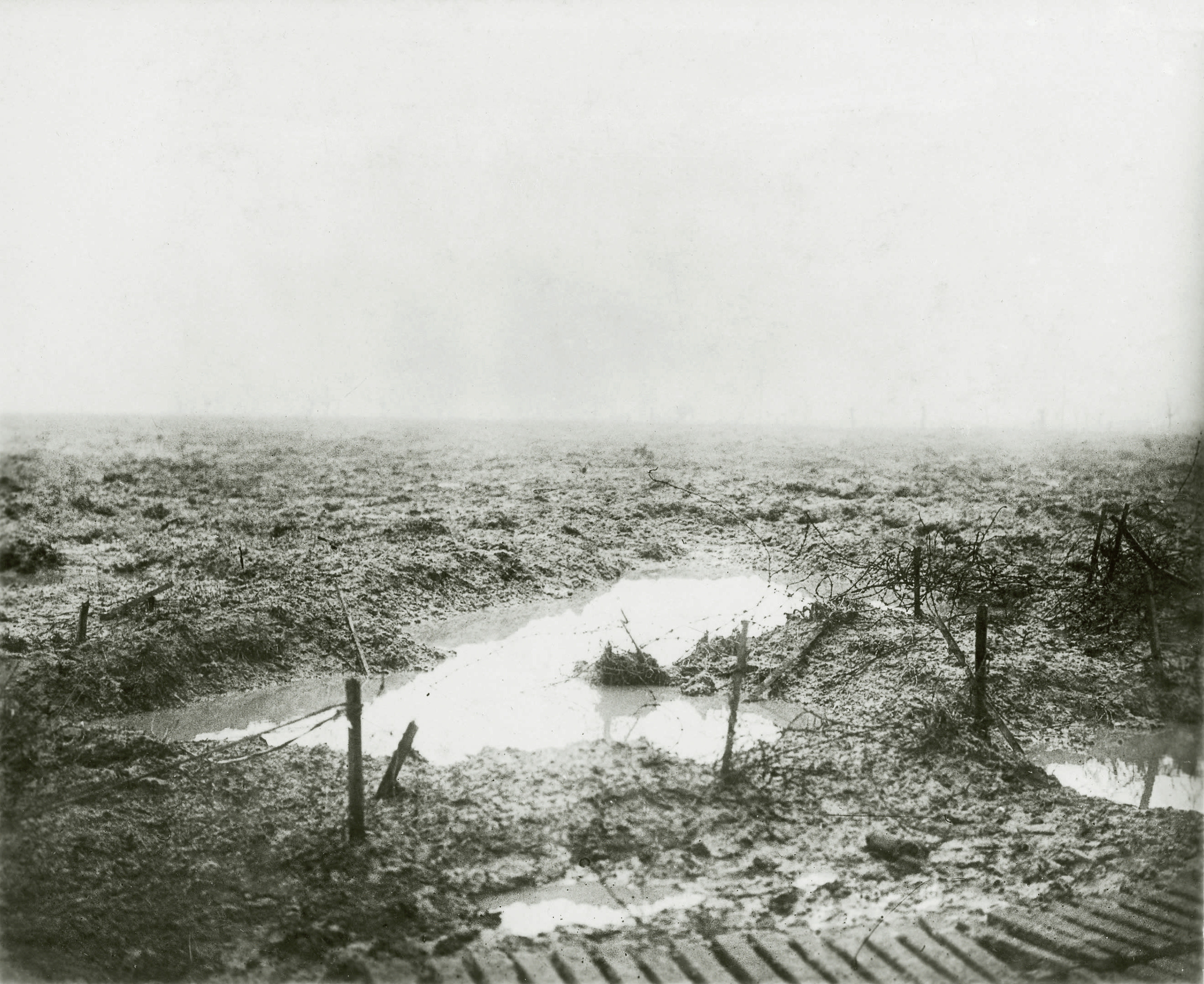 Mud, water, and barbed wire illustrate the horrible terrain through which the Canadians advanced at Passchendaele in late 1917.